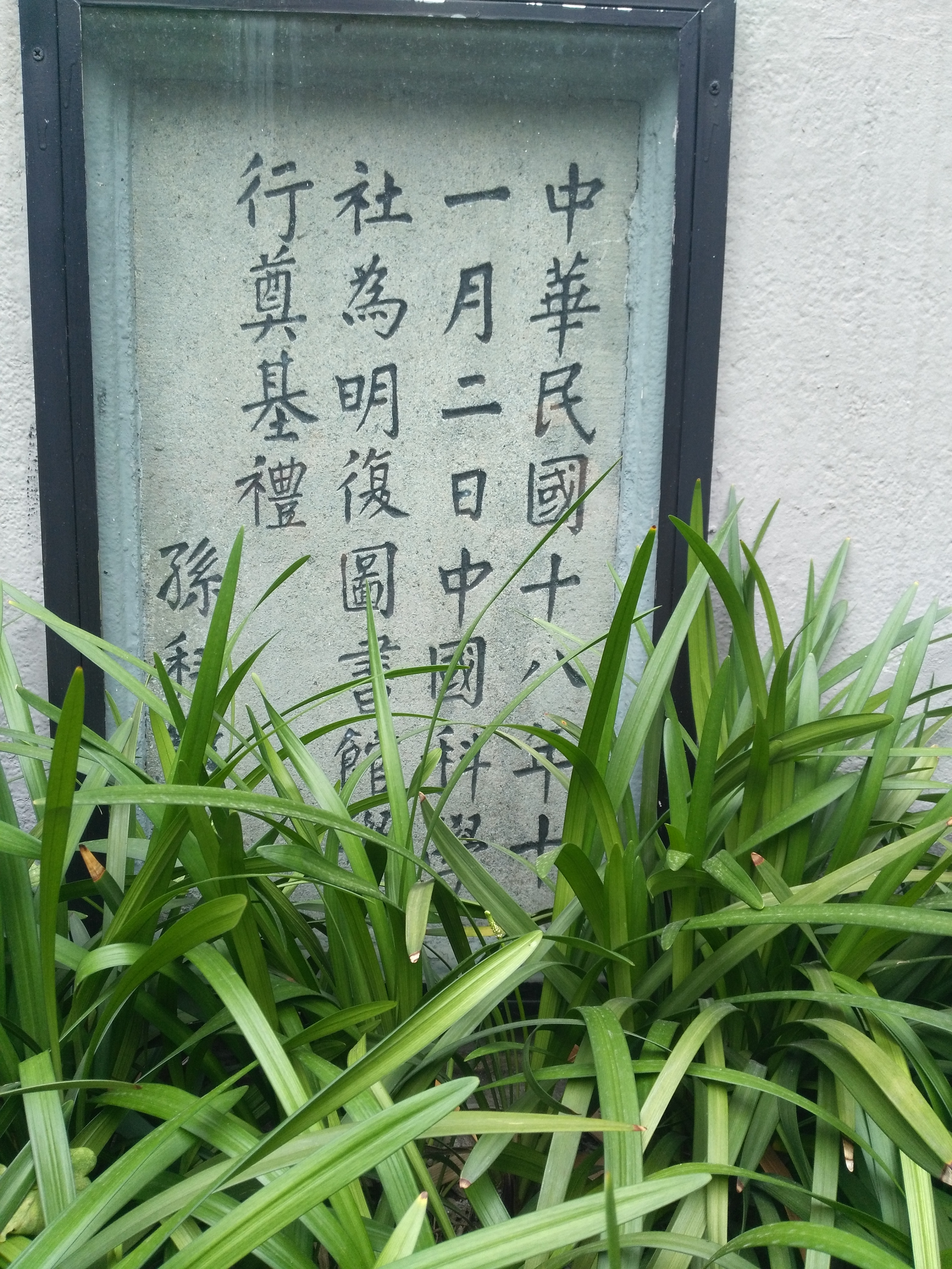 The foundation stone of Mingfu Library was written by Sun Fo. The text reads as follows: "The founding ceremony for the Mingfu Library was held by the Science Society of China on November 2 of the 18th Year of Republic of China. Sun Fo."